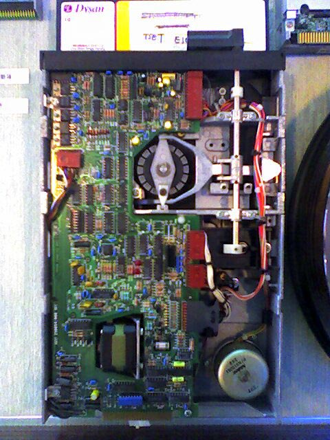 An 8-inch floppy disk driver taken at the National Chiao Tung University, Taiwan by Toytoy 08:47, Jun 26, 2005 (UTC)